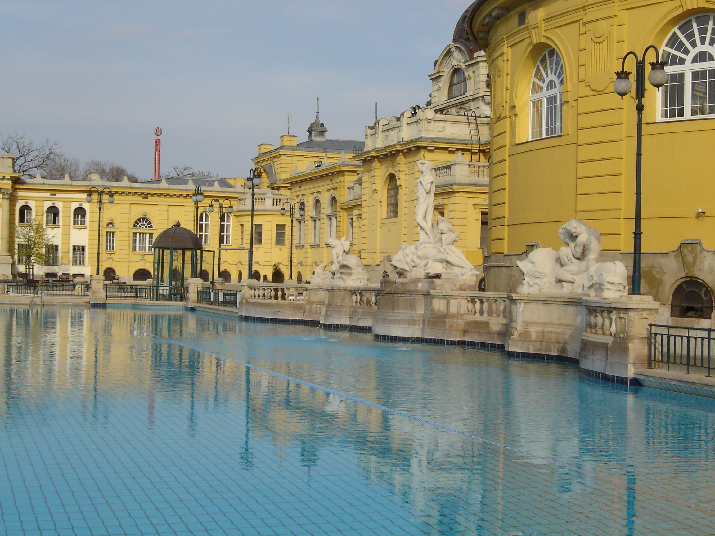 Széchenyi Bath, Budapest